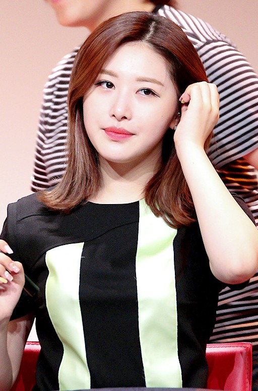 Hong Euijin at a fansigning event in Incheon, 23 August 2015